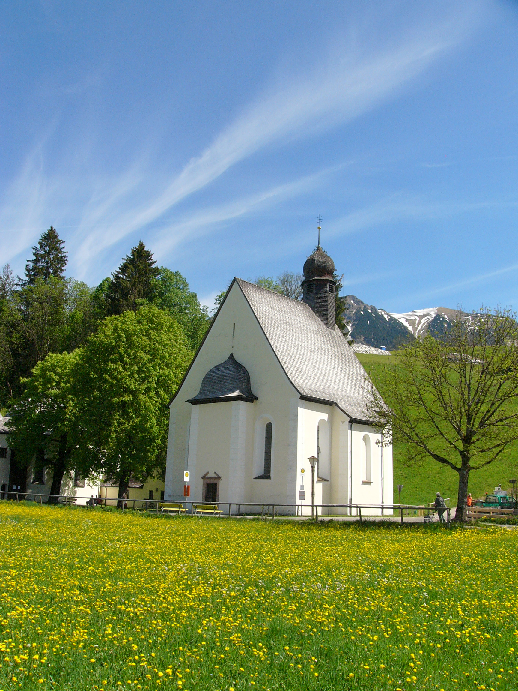 Three Loretto Chapels are located in Oberstdorf, southwestern Bavaria in Germany.